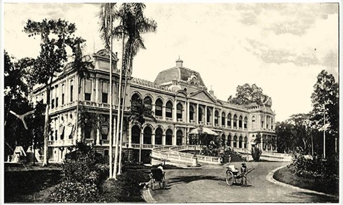 Hall of Governors-General of French Indochina